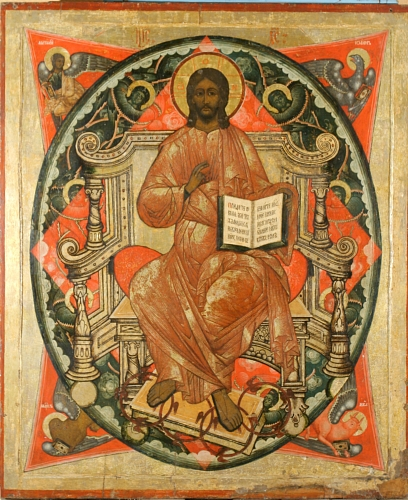 Jesus Christ the Pantocrator (Spas v silakh), Russian icon from first quarter of 18th cen.